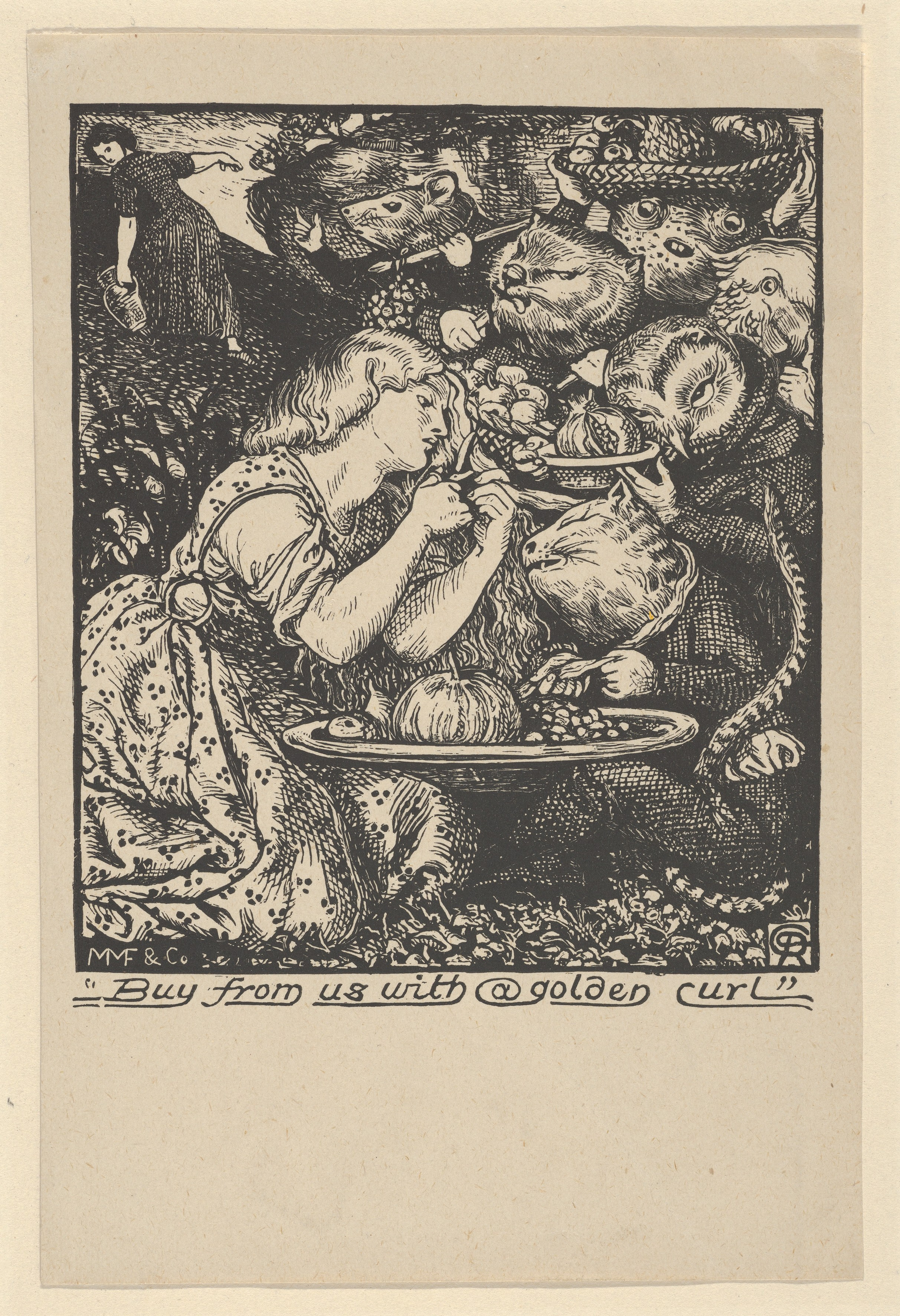 Print; Prints